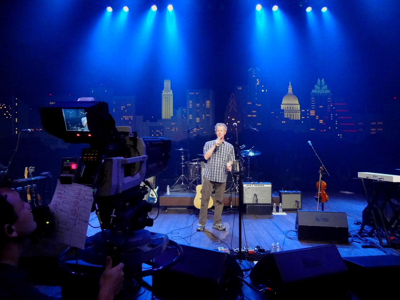 Terry Lacona - Producer of Austin City Limits. Photo by Ron Baker.